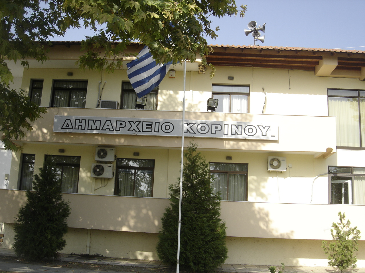 The city hall of Korinos.